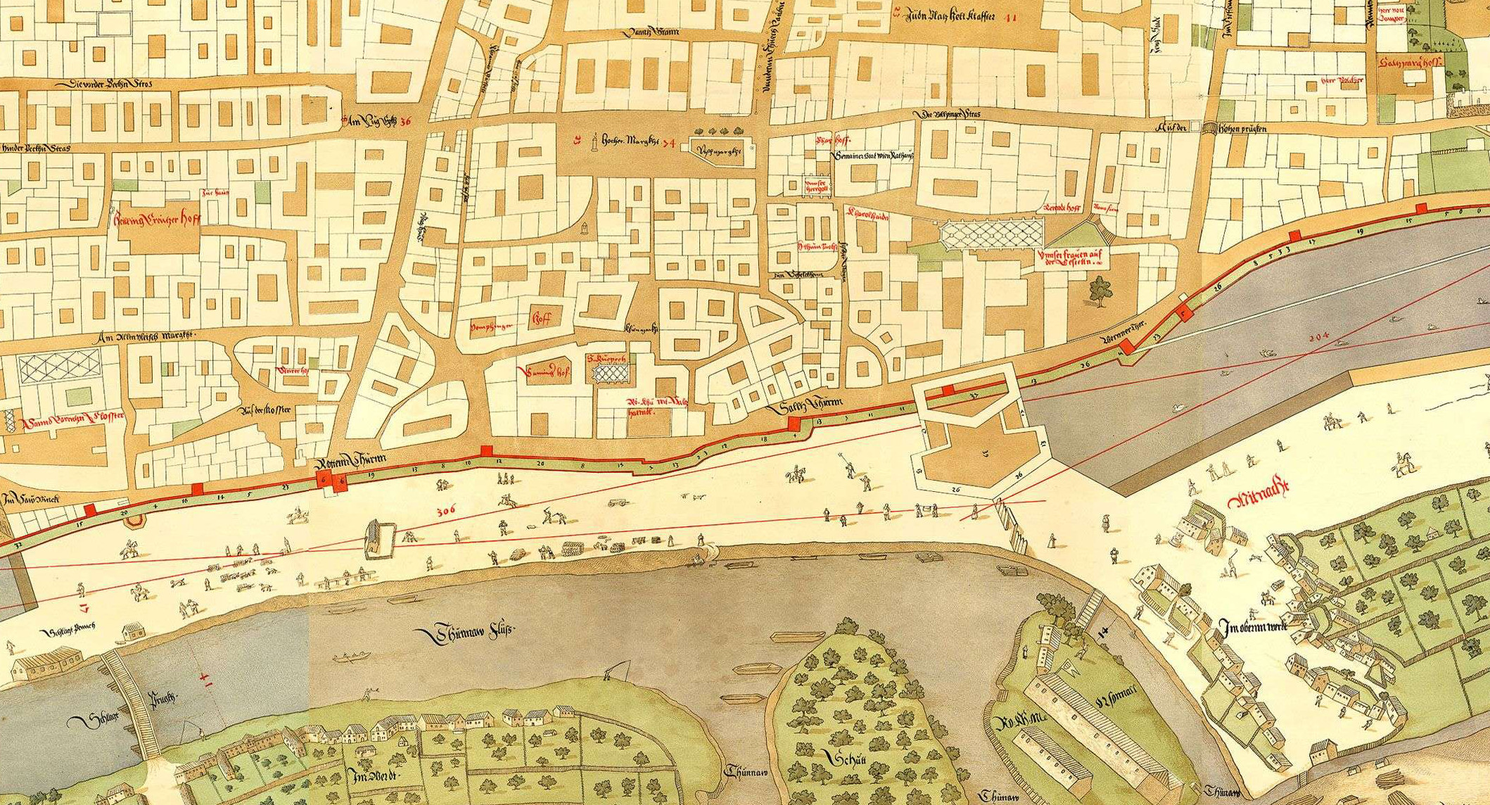 Map of Vienna 1547, Detail (northern part). Southwest is up.